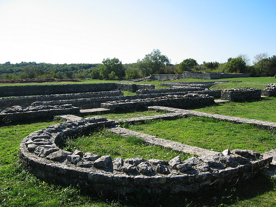 Nesactium, early christian basilica